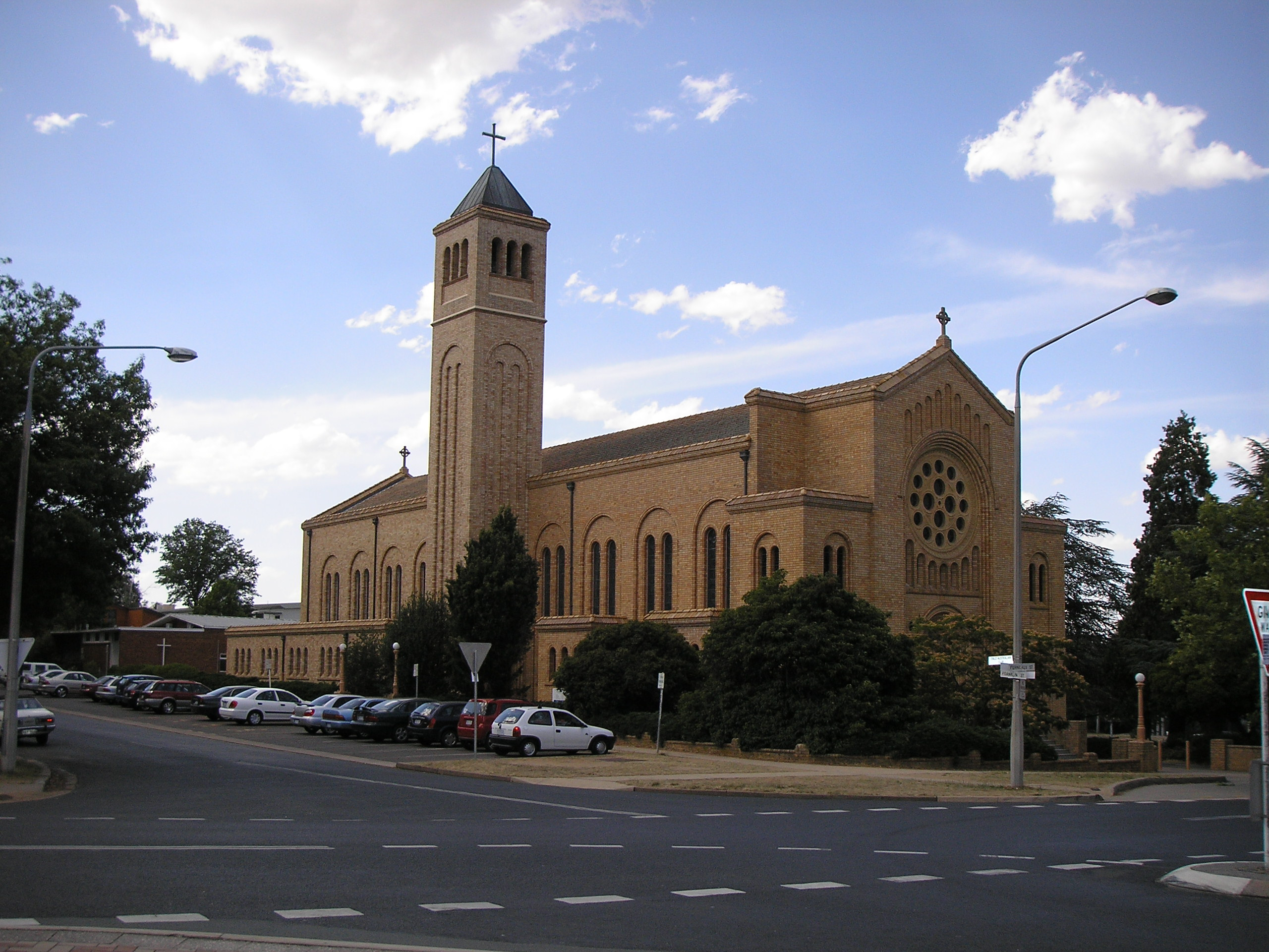 St Christopher's Cathedral, Manuka, in the Catholic archdiocese of Canberra-Goulbourn. This image was created on 28 Dec. 2005 by W. A. Burdett